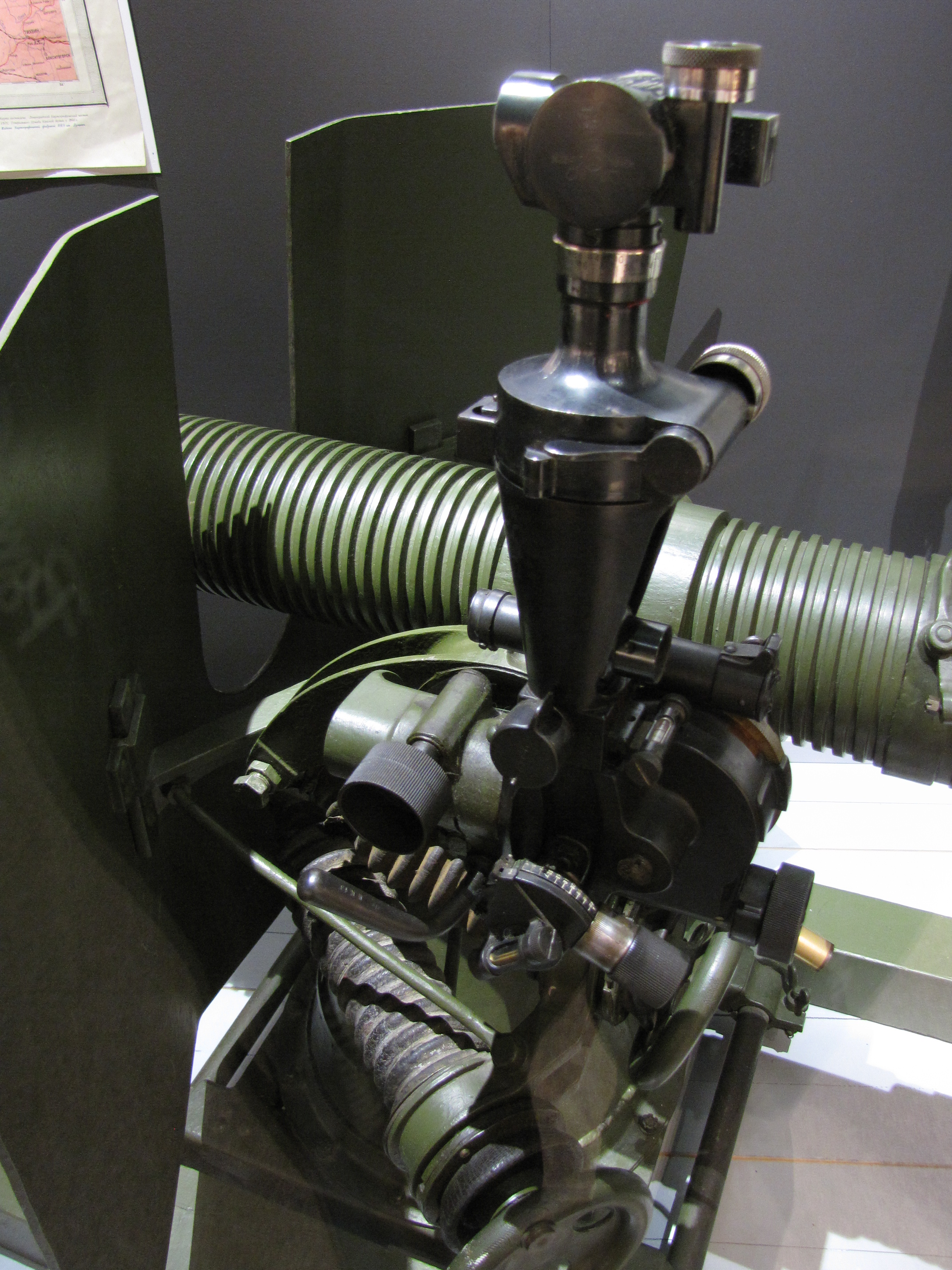 Gun sight of a Soviet Union 76 mm DRP recoilless gun captured by Finns in Winter War. Photographed in the "Winter War - 70 years" exhibition in the Military Museum of Finland.